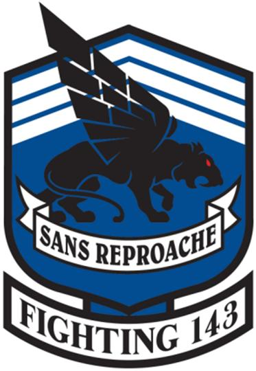 Updated Pukin' Dog shield